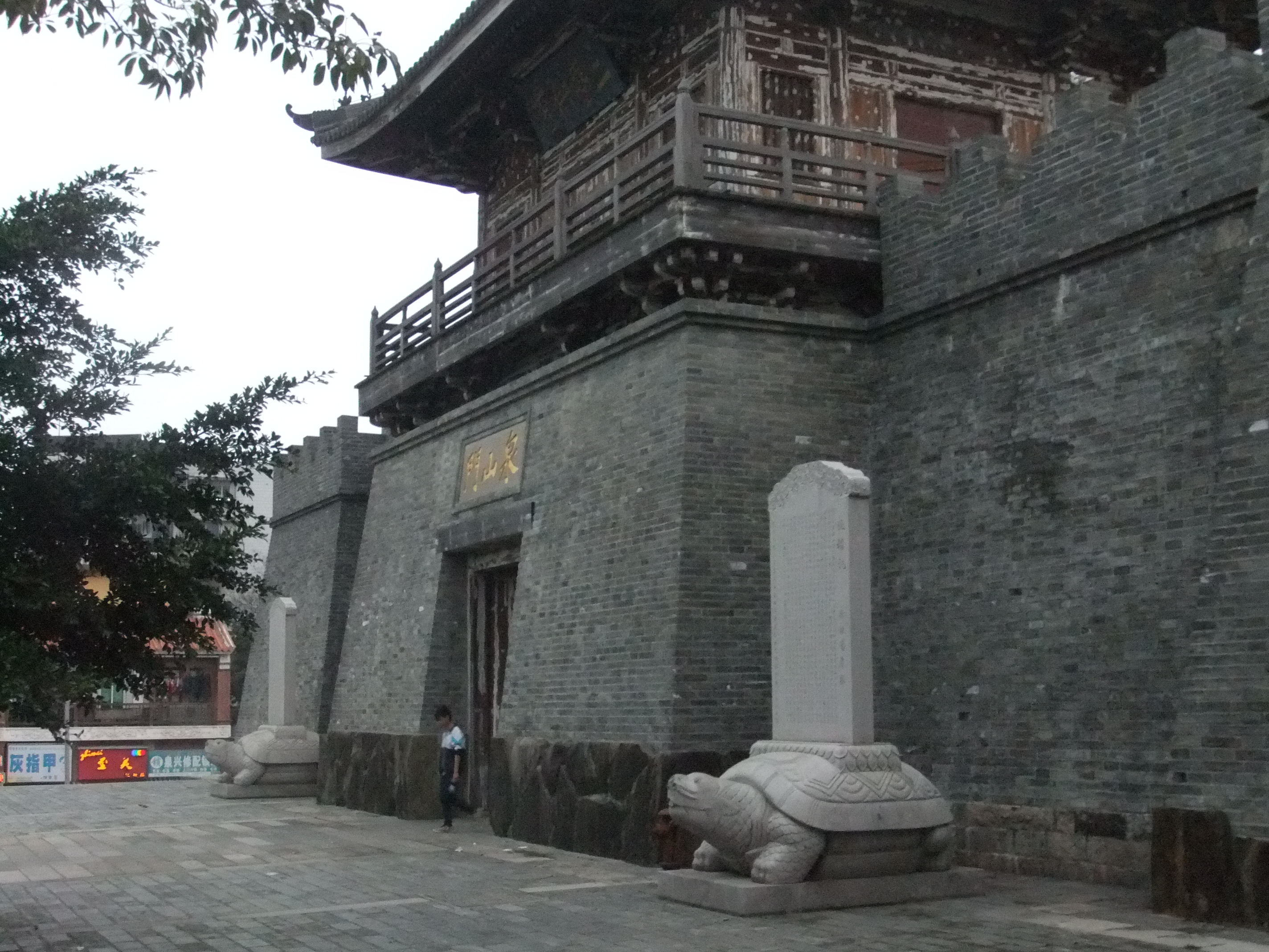 The restored Quanshan Gate of Quanzhou, flanked by two bixi turtles.